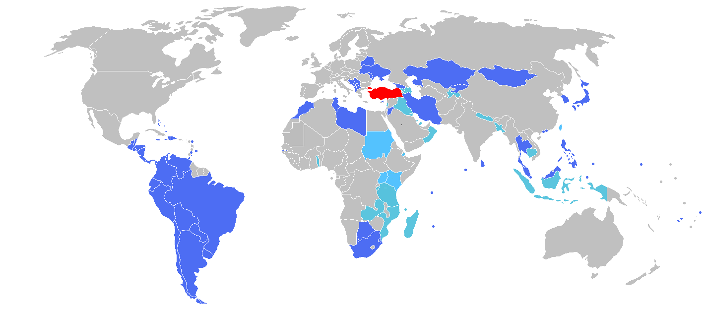 TurkeyVisaFreeTravelMap3